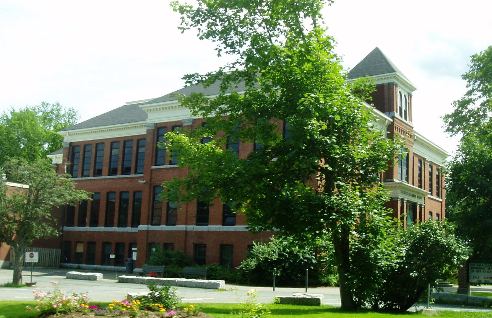 Halifax Grammar School, taken by SimonP